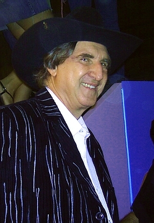 Brazilian singer and composer Sérgio Reis.